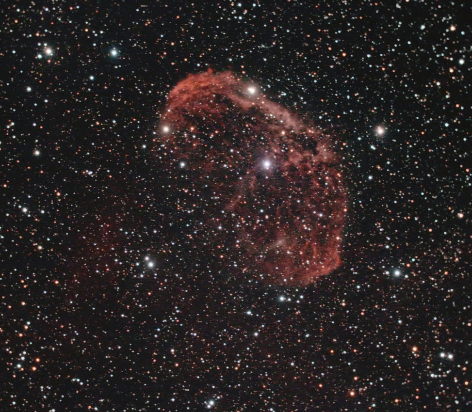 The Crescent Nebula in Cygnus - NGC6888